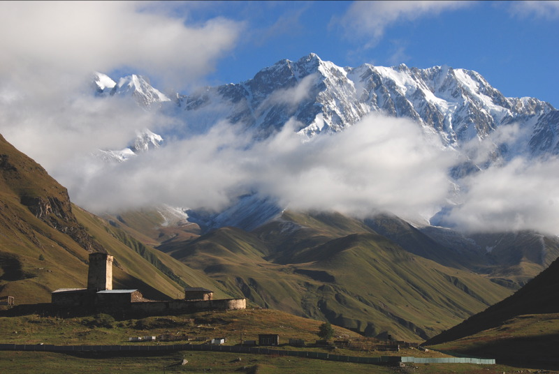 Shkhara